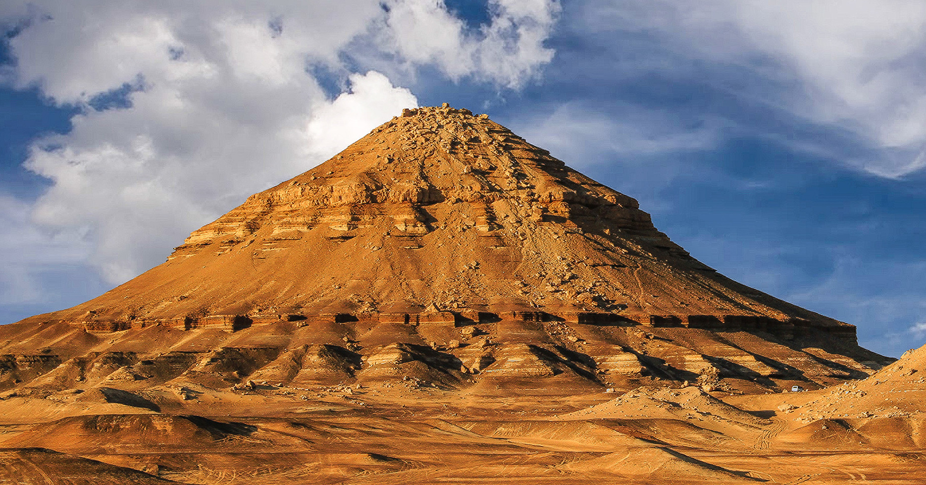 Gebel el Dist (“Pyramid Mountain”) in the northern part of the Baharyia Oasis, Egypt, seen from southwest. The flanks of that hill expose the type section of the Bahariya Formation, a siliciclastic unit of earliest Upper Cretaceous (early Cenomanian) age.